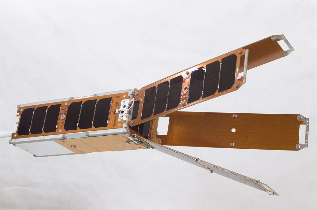 Winglet Pumpkin Solar Pannels for CubeSat to increase usable surface area.